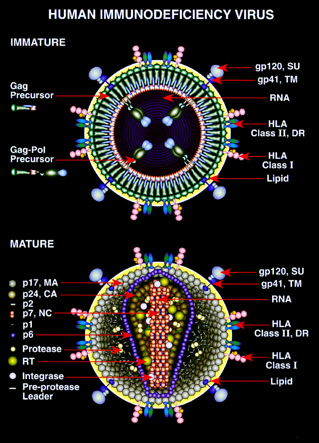 The immature and mature forms of HIV. Conversion of to the more efficient PNG format.